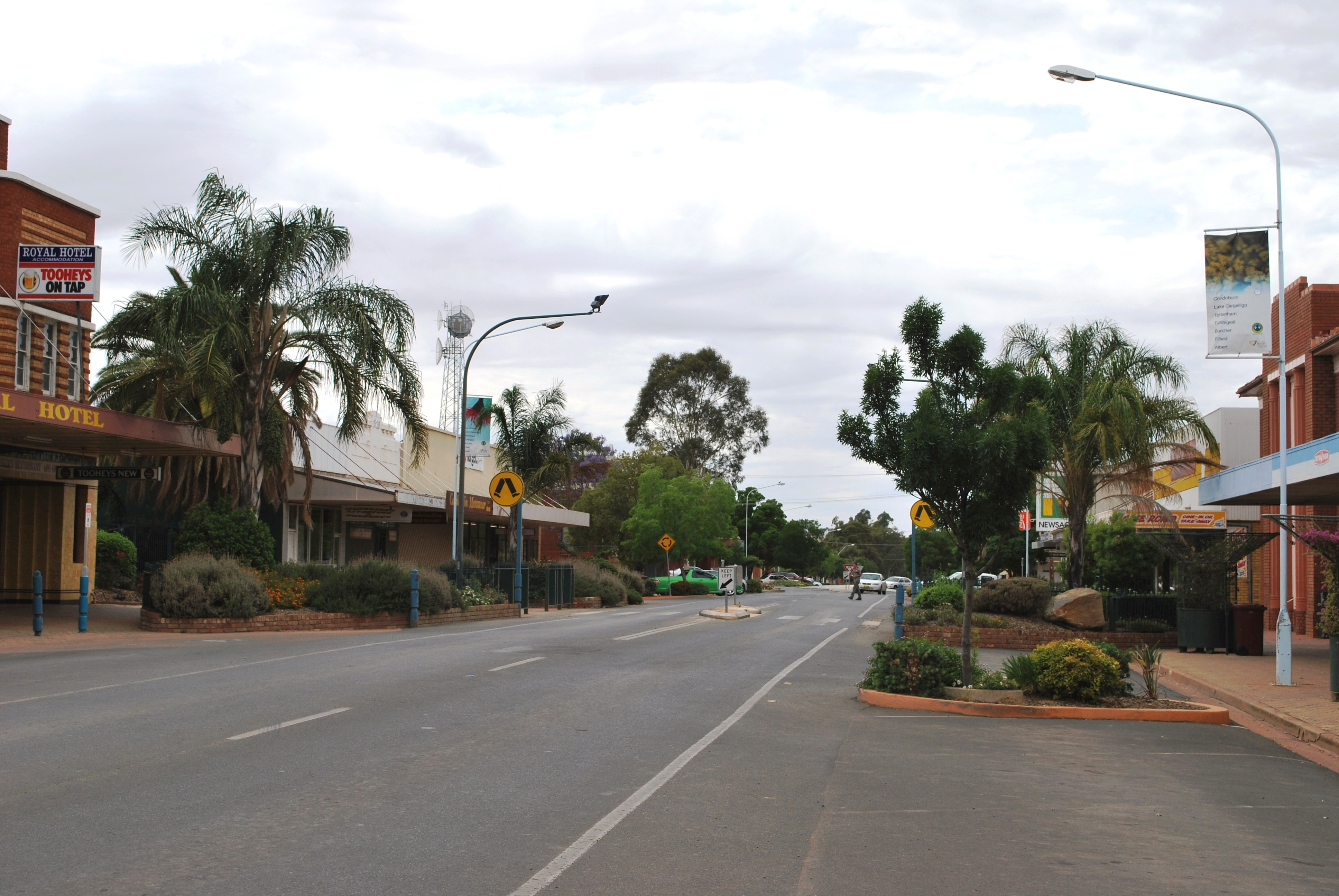 Main street of Condobolin, New South Wales